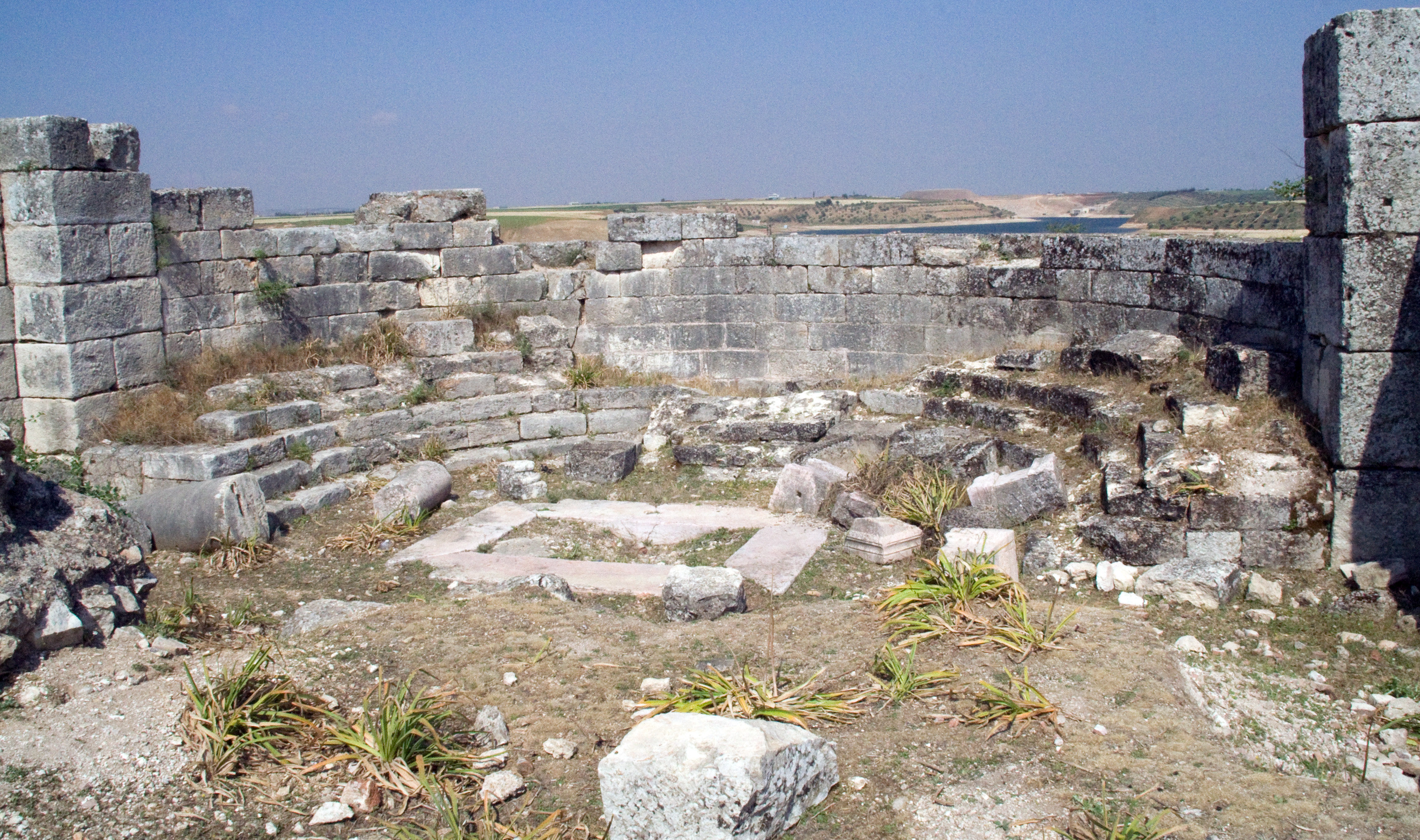 Apamea (Syria), Tetraconch Church (so-called 'East Cathedral', 6th cent. A.D.): View into the eastern apse of the central tetraconch with altar base and synthronon.